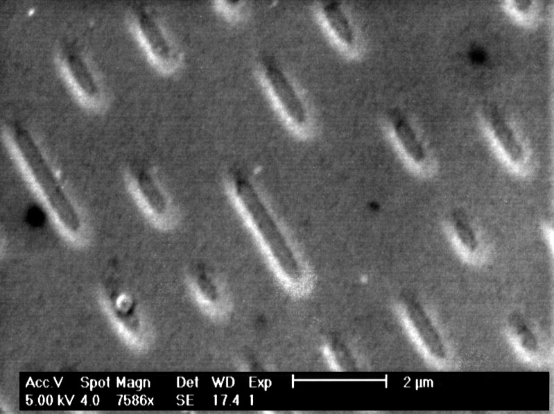 SEM micrograph of compact disc